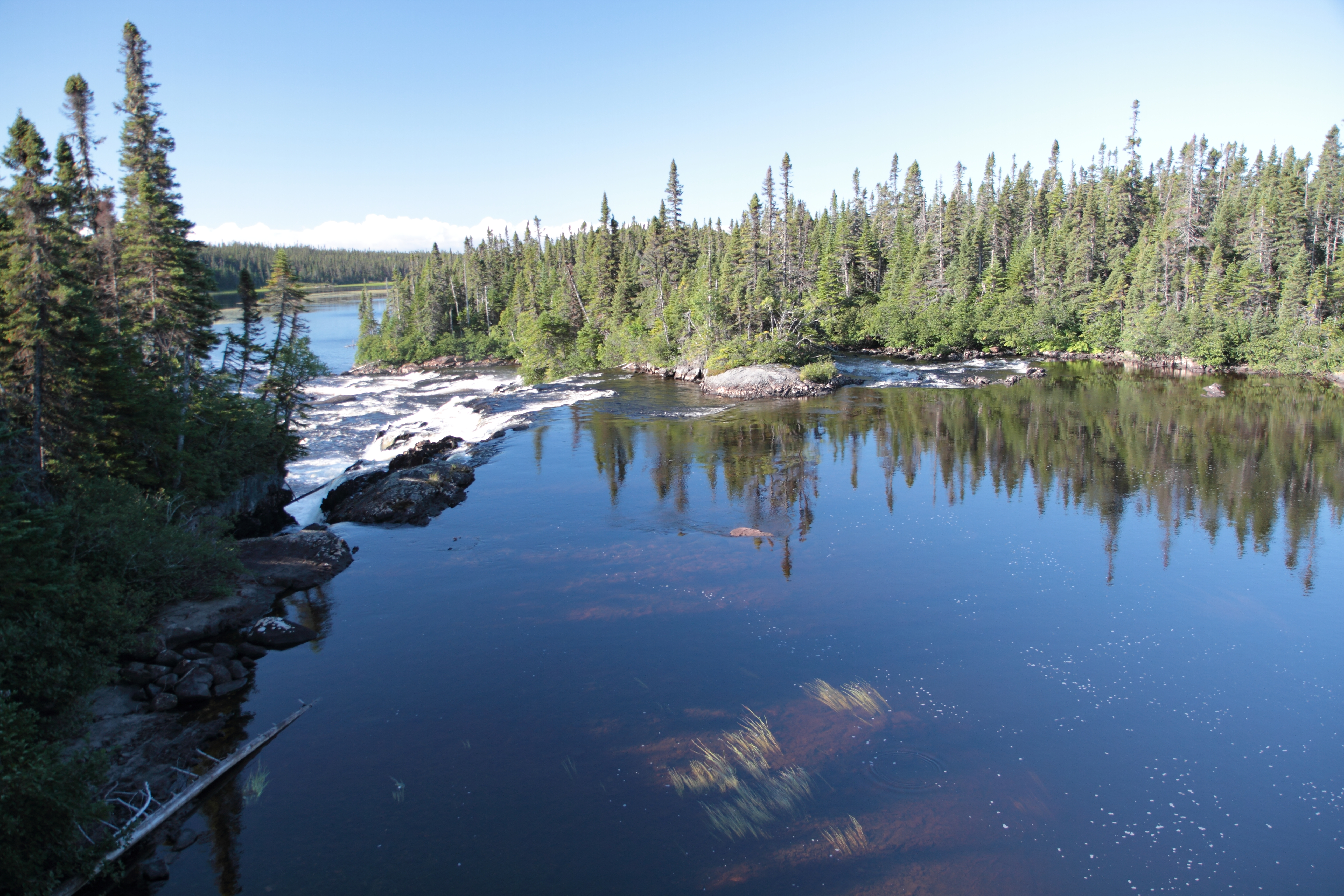 Watshishou river, Baie-Johan-Beetz, Quebec, Canada